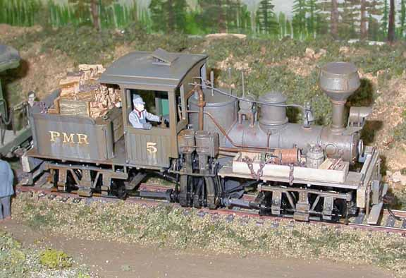 Model railroad locomotive in the scale/gauge combination known as 0n30: this is in US 0 scale (1:48) using 16.5 mm gauge track (the same width as H0 scale standard gauge) to model narrow gauge railroads of approximately 30 inches gauge (762 mm). This locomotive is a Shay geared locomotive produced by Bachmann Industries, modified, painted and weathered by Darryl Huffman.